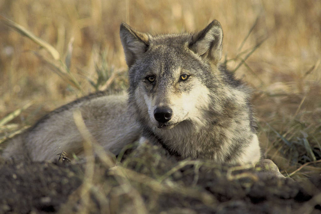 Photo credit: USFWS/John & Karen Hollingsworth